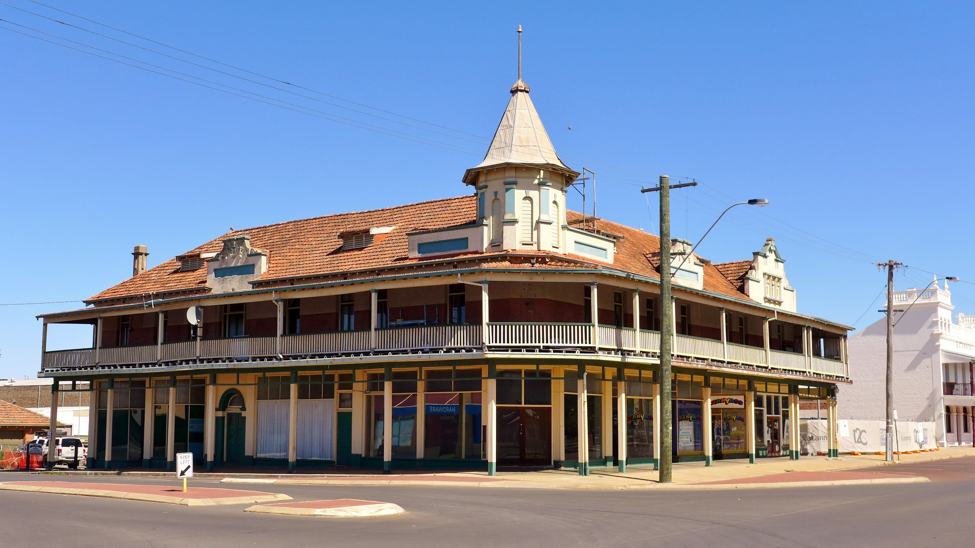 View of the former King George Hostel, cnr Austral Terrace and Albion Street, Katanning, Western Australia